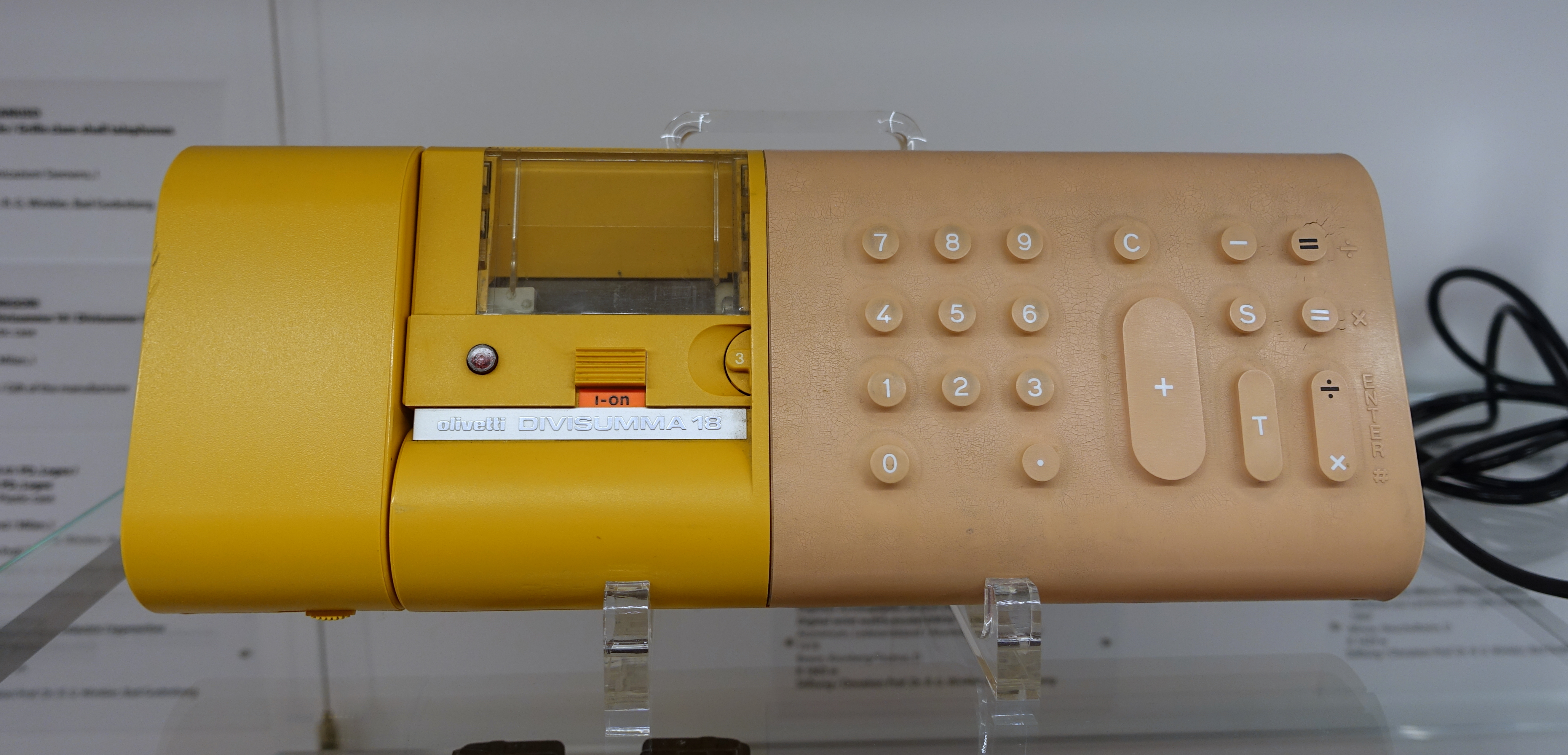 Divisumma 18 calculator, designed by Mario Bellini & A. De Gregori, Olivetti & Co., Milan, 1973, plastic case. As a utilitarian object, this work is NOT subject to copyright laws. In Finland, the EU, and Russia, design rights are granted for a maximum of 25 years. This protection period has passed, and hence this work is now in the public domain.